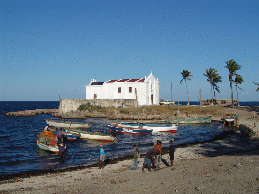 Church of San Antonio on the Island of Mozambique